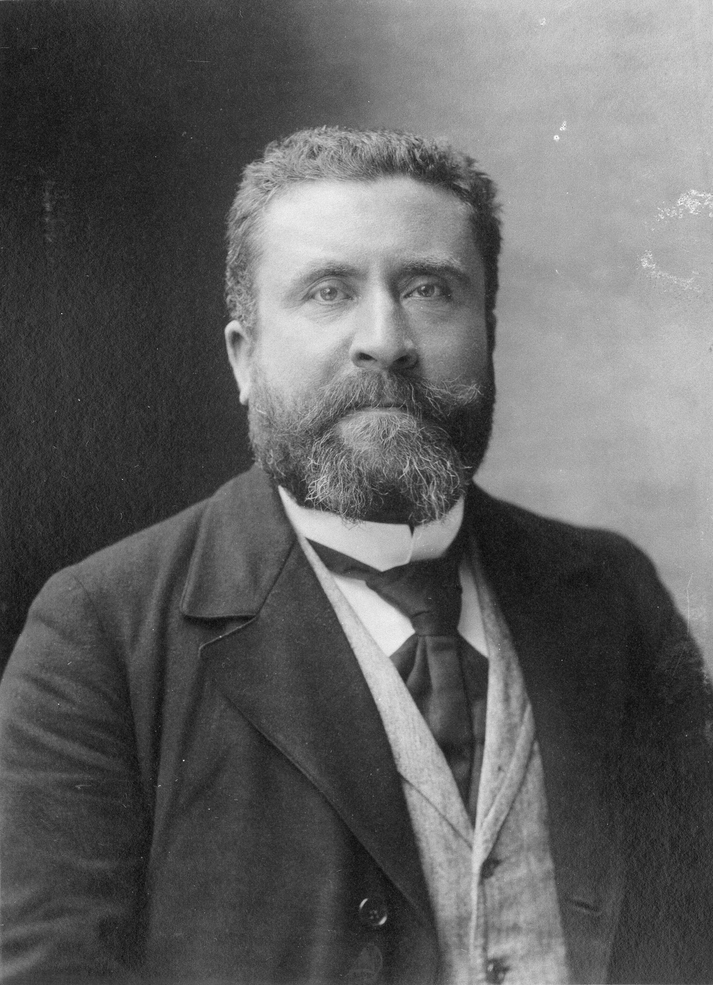 Jean Jaurès, French socialist and pacifist, murdered 31st of July 1914